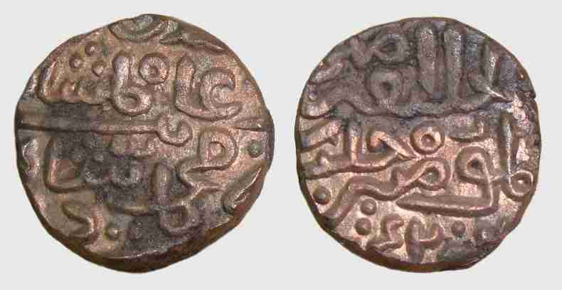 Date AH 852, Mint Hadrat Dehli